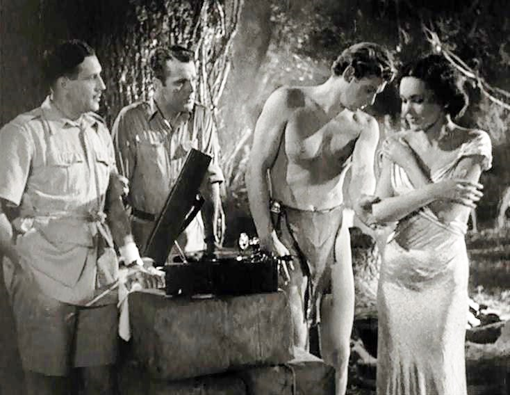 Left to right: Paul Cavanagh, Neil Hamilton, Johnny Weissmuller, and Maureen O'Sullivan in Tarzan and His Mate (1934) - trailer (cropped screenshot)